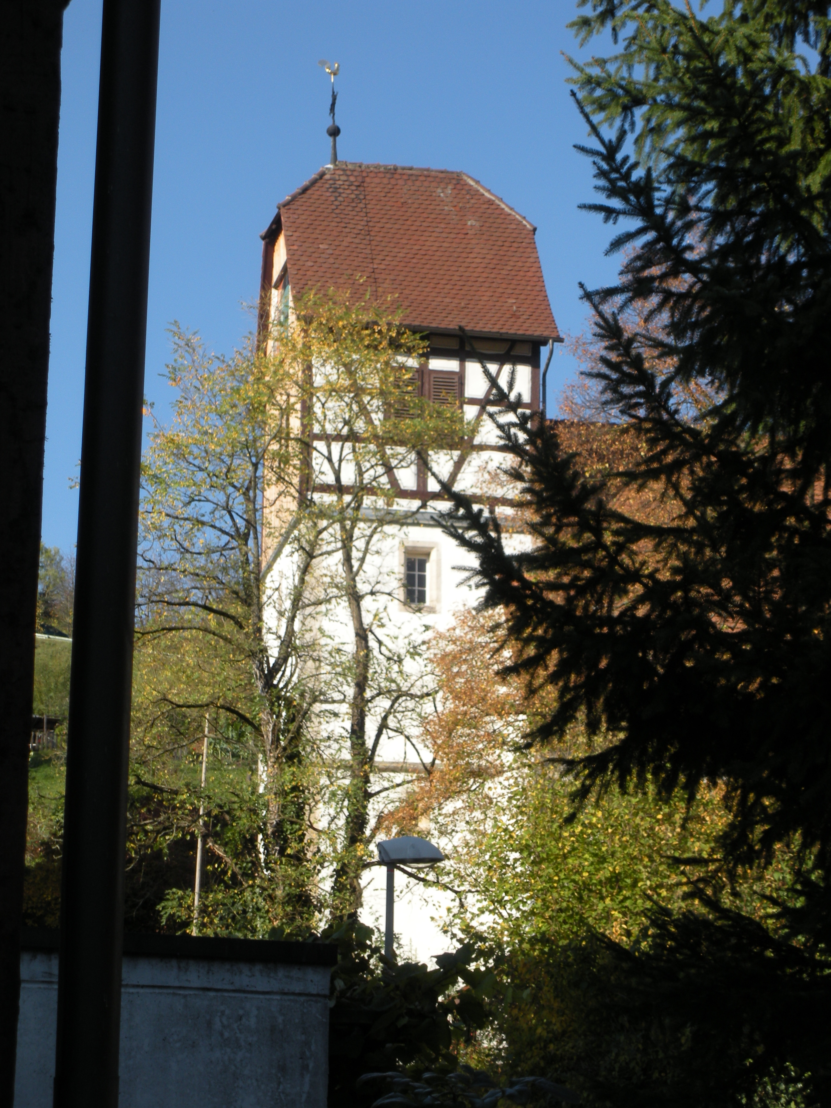 Protestant Church of Bernard in Stuttgart-Rohracker